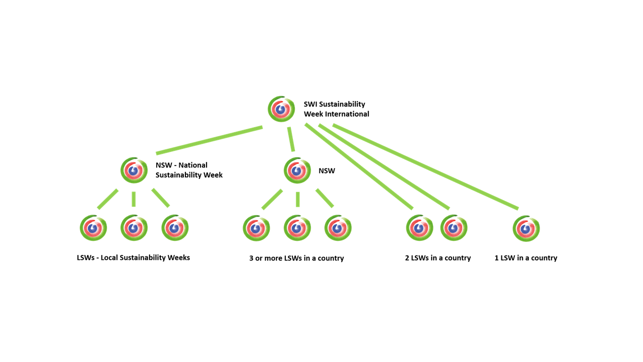 Structure Sustainability Weeks.jpg